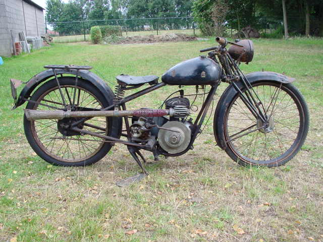 Toestemming van Yesterdays Antique Motorcycles ( categorie:afbeelding motorfiets